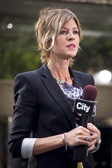 Avery Haines of City TV (Toronto) at the state funeral for Jack Layton